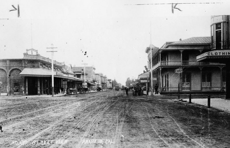 View of an unpaved street in Anaheim in 1890, with shops and stores on either side and carriages parked at curbs. A streetcar is seen on tracks in the middle of the street.